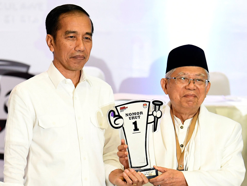 Portrait of Joko Widodo and Ma'ruf Amin.